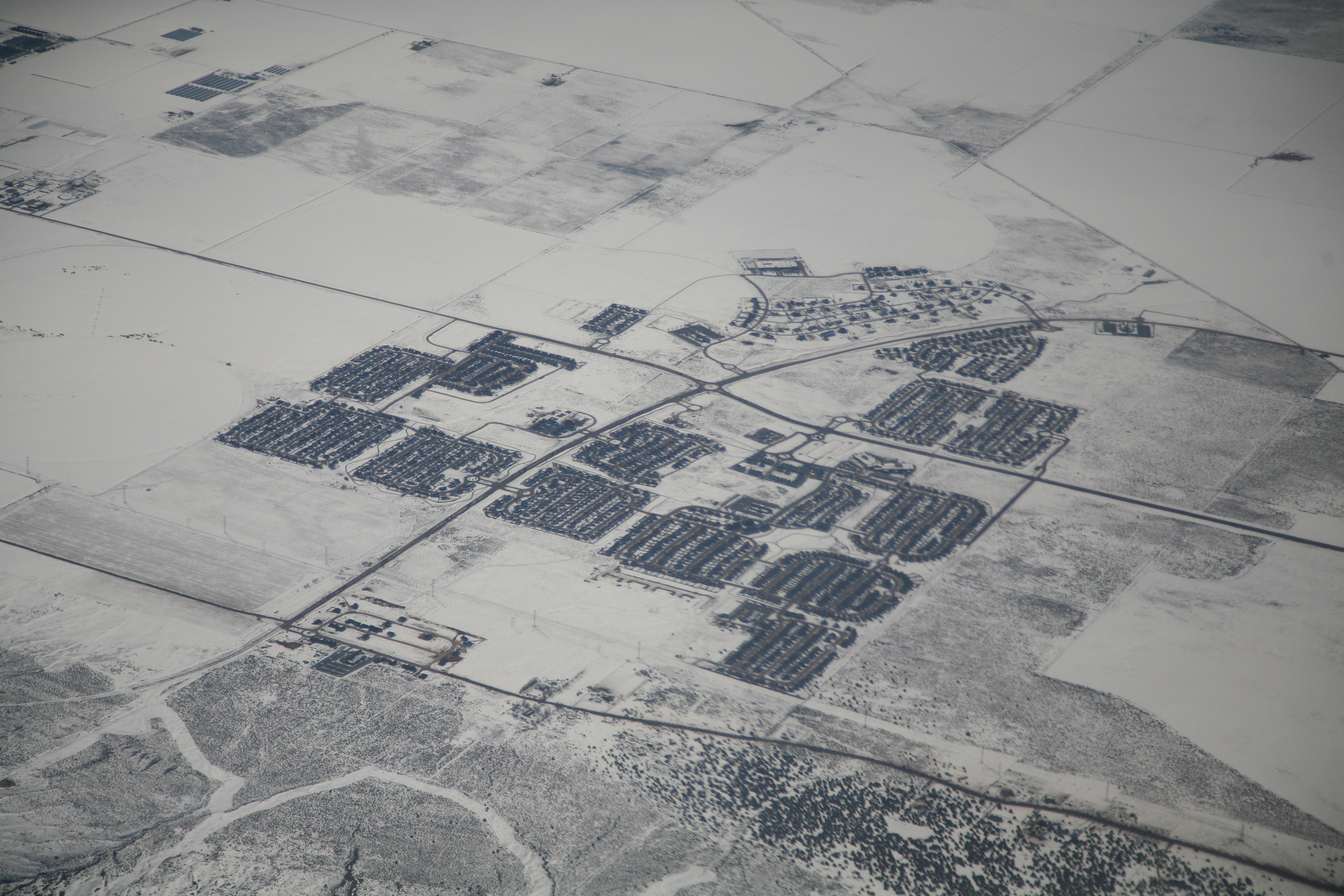 Eagle Mountain, east of the southern end of the Oquirrh Mountains of Utah.